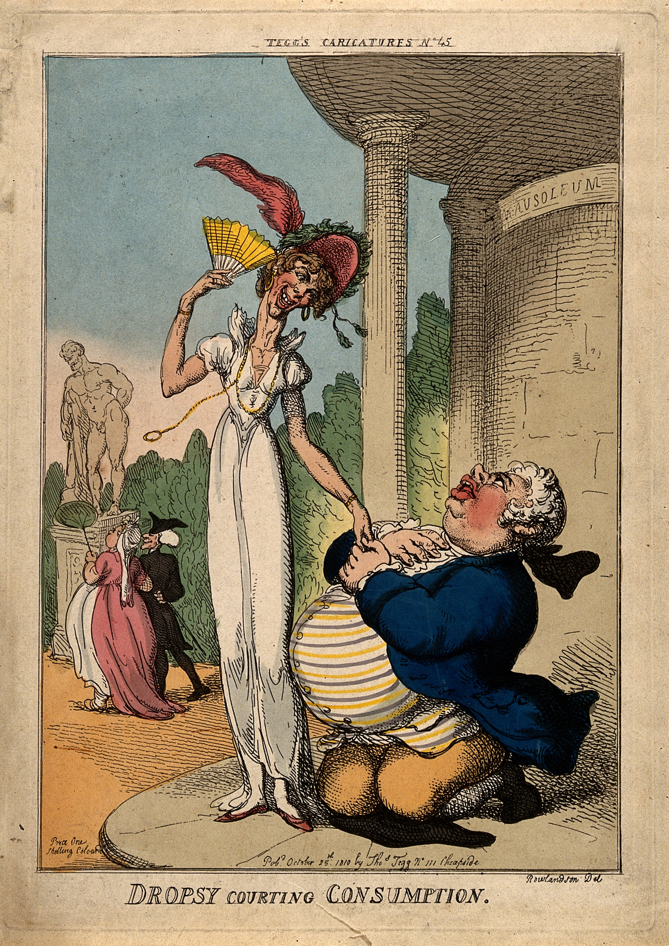 An obese man wooing a tall lean woman outside a mausoleum; representing dropsy and consumption. Coloured etching by T. Rowlandson, 1810. Iconographic Collections Keywords: Caricatures; costume - history - 19th centu; Ascites; Hercules; Tuberculosis; Thomas Rowlandson; Courtship; hercules (roman mythology); etchings